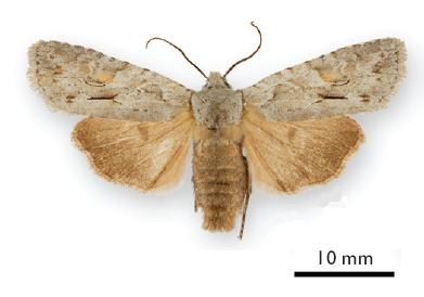 Lithophane abita male